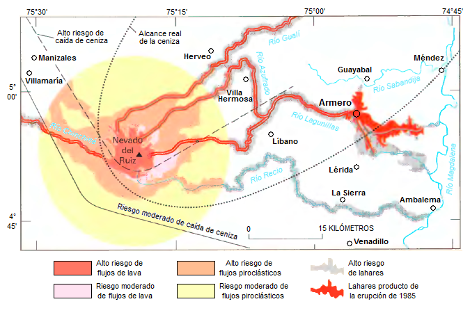 Original caption: "Map showing hazards expected from an eruption of Nevado del Ruiz, Colombia. Such a map was prepared by INGEOMINAS (Colombian Institute of Geology and Mines) and circulated 1 month prior to the November 13, 1985, eruption of Nevado del Ruiz. Map shows danger from mudflows in the valley occupied by the town of Armero, Colombia, as well as areas affected by the hazards that resulted from this eruption. Circle denotes 20-kilometer limit."